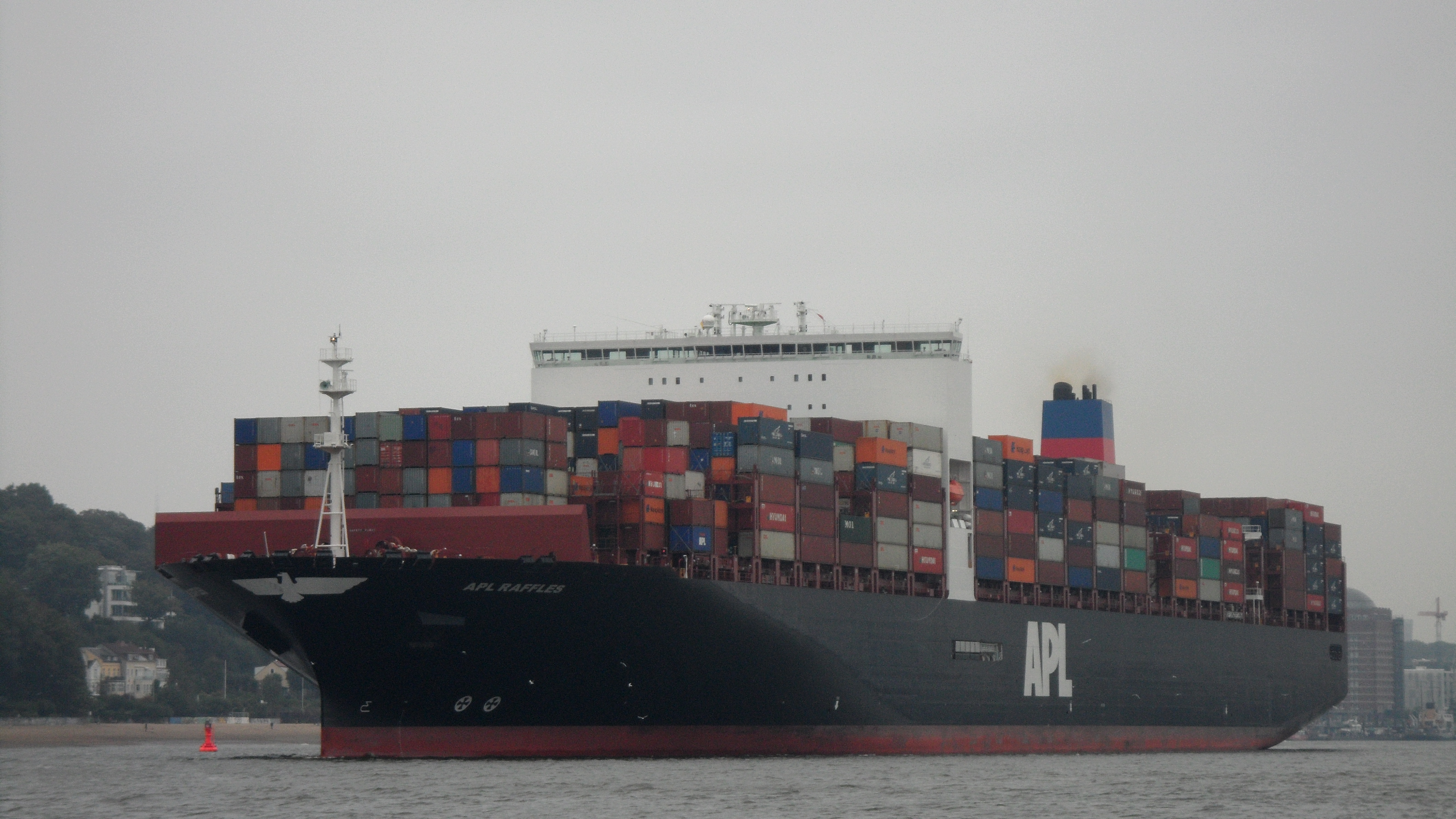 Container ship APL Raffles leaves the port of Hamburg